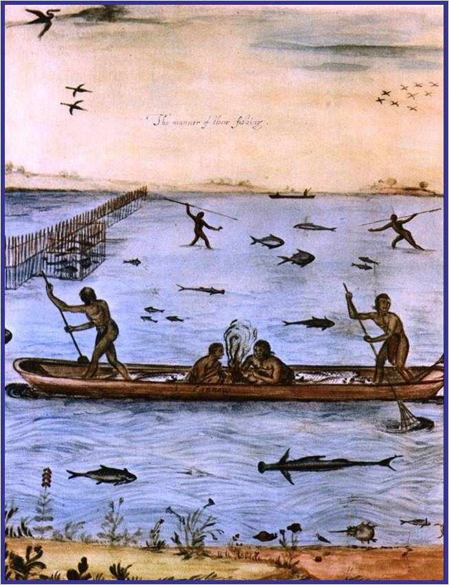 Native Americans Fishing, Indians Fishing, water, boat, mishoon, fish